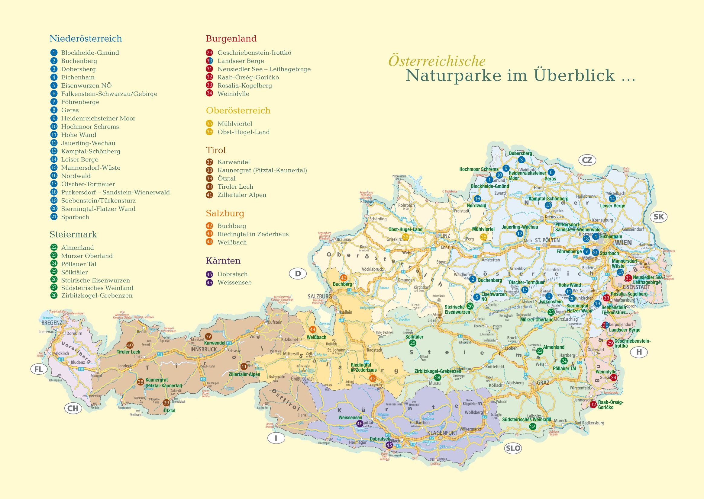 Übersichtskarte Naturparke Österreichs